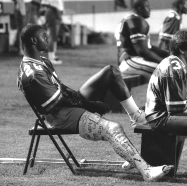 FSU's running back Greg Allen in cast - Tallahassee, Florida.